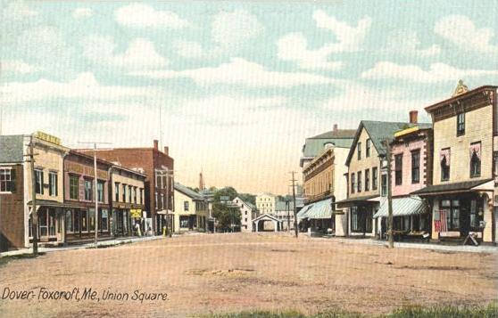 Union Square, Dover-Foxcroft, Maine. 1906 postcard published by the Hugh C. Leighton Company, Portland, Maine